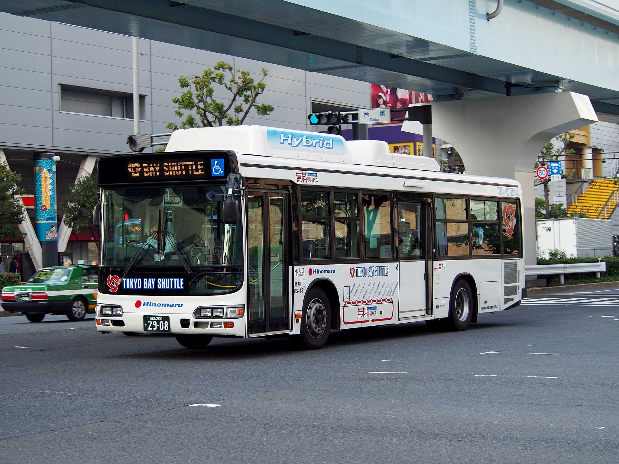 Fleet of Tokyo Bay Shuttle since 2014, operated by Hinomaru Jidosha Kogyo. Model: Hino Blue Ribbon City Hybrid LNG-HU8JMGP License plate: TKN200KA2908 Place: Daiba, Minato Ward, Tokyo Japan